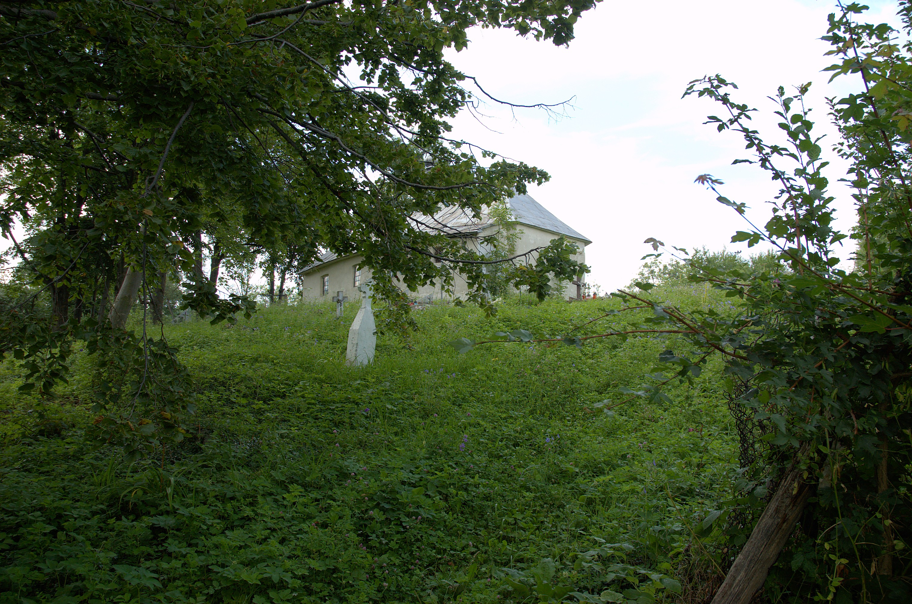 Greek Catholic church in Kopysno